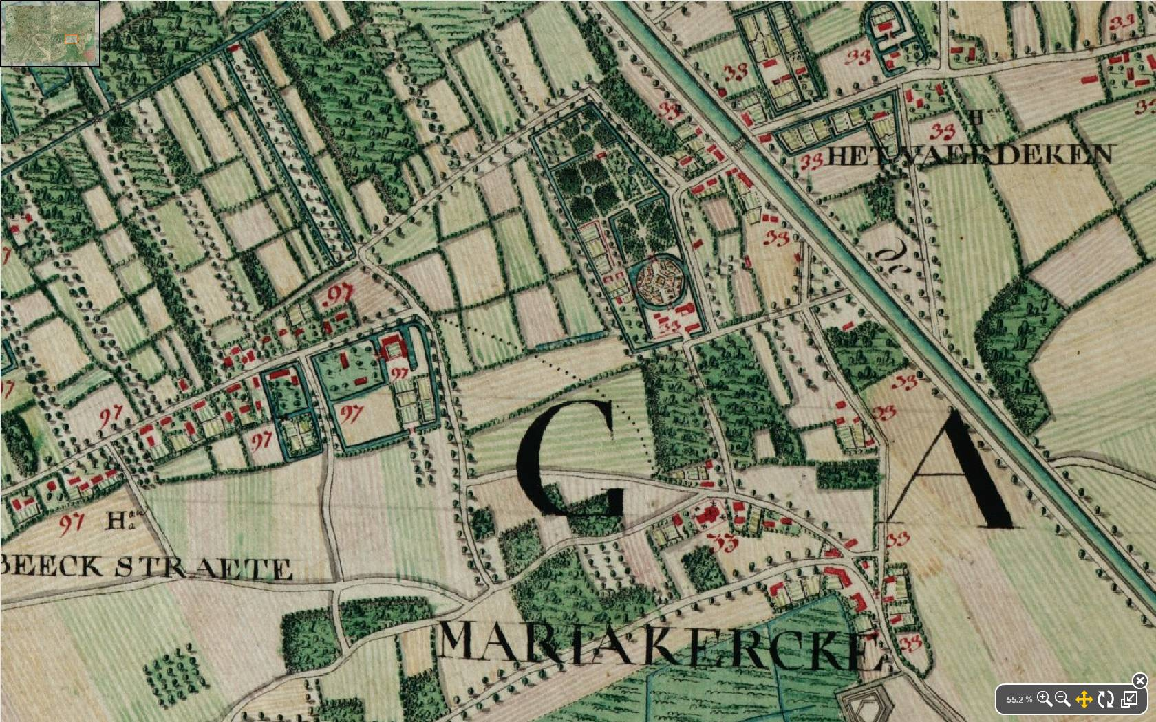 Mariakerke,_Ghent,_Belgium,_Ferraris.jpg